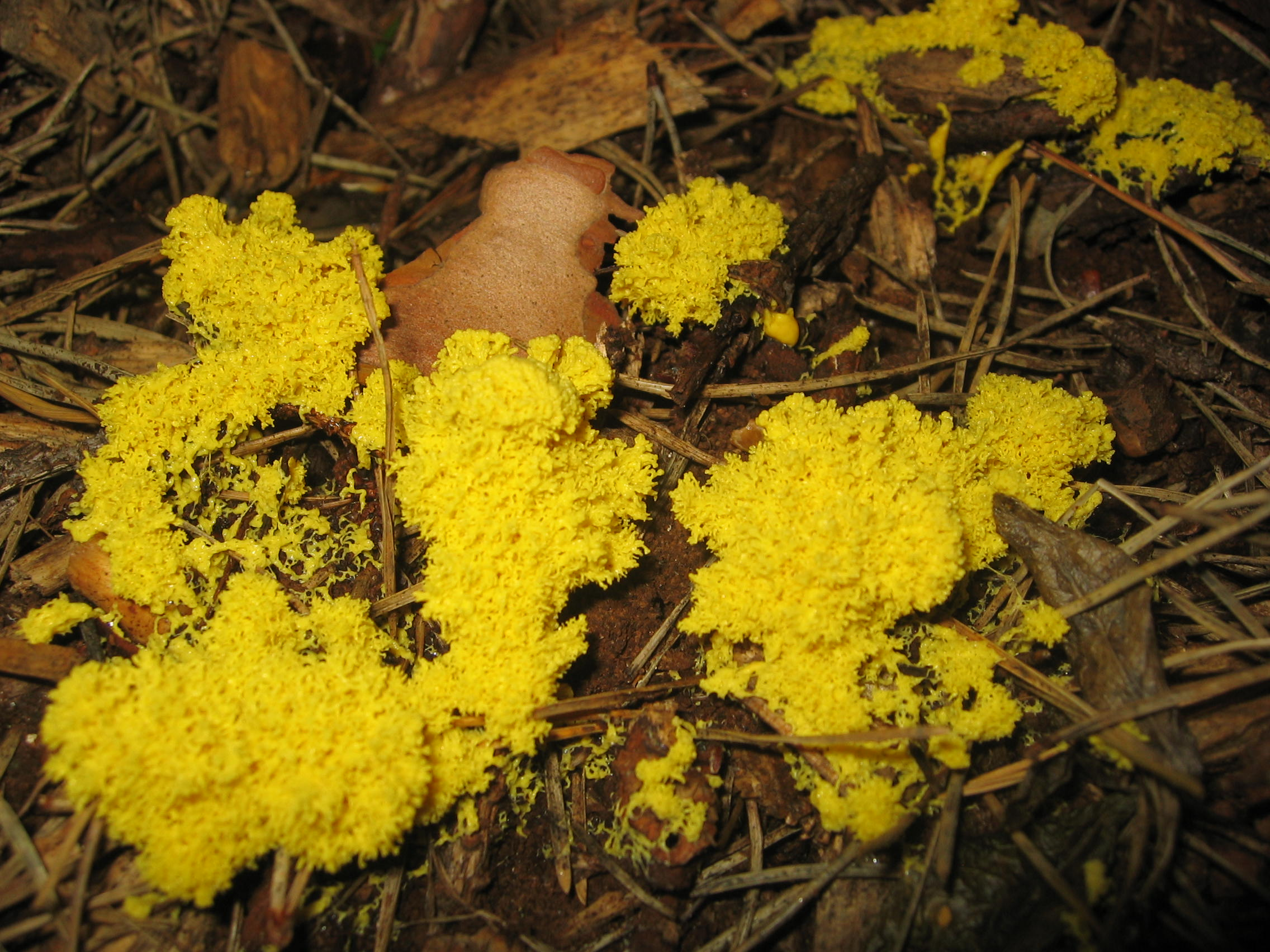 Yellow slime mould, Fuligo rufa (young), (Myxogastria)